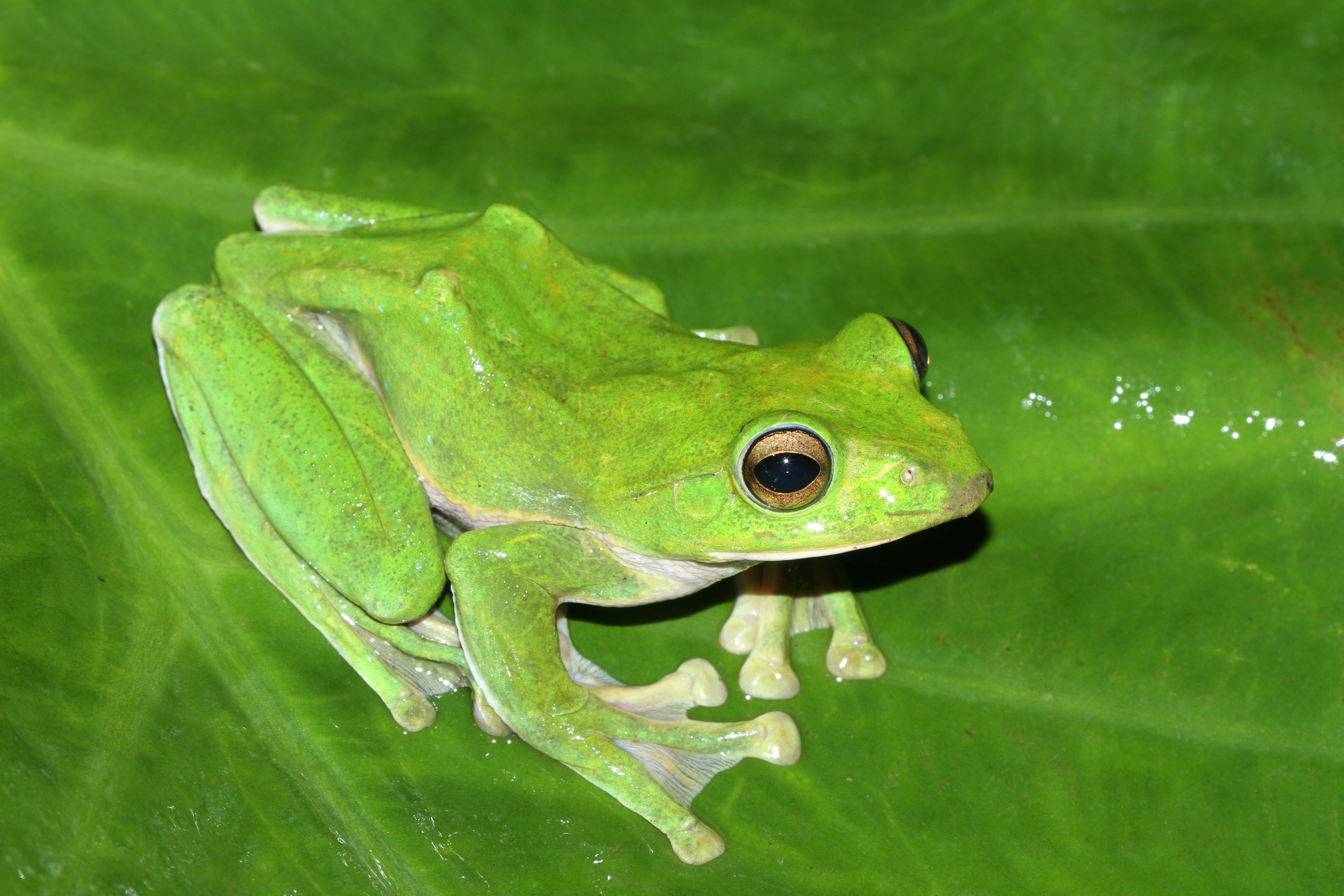 Rhacophorus maximus, largest gliding frog in India.